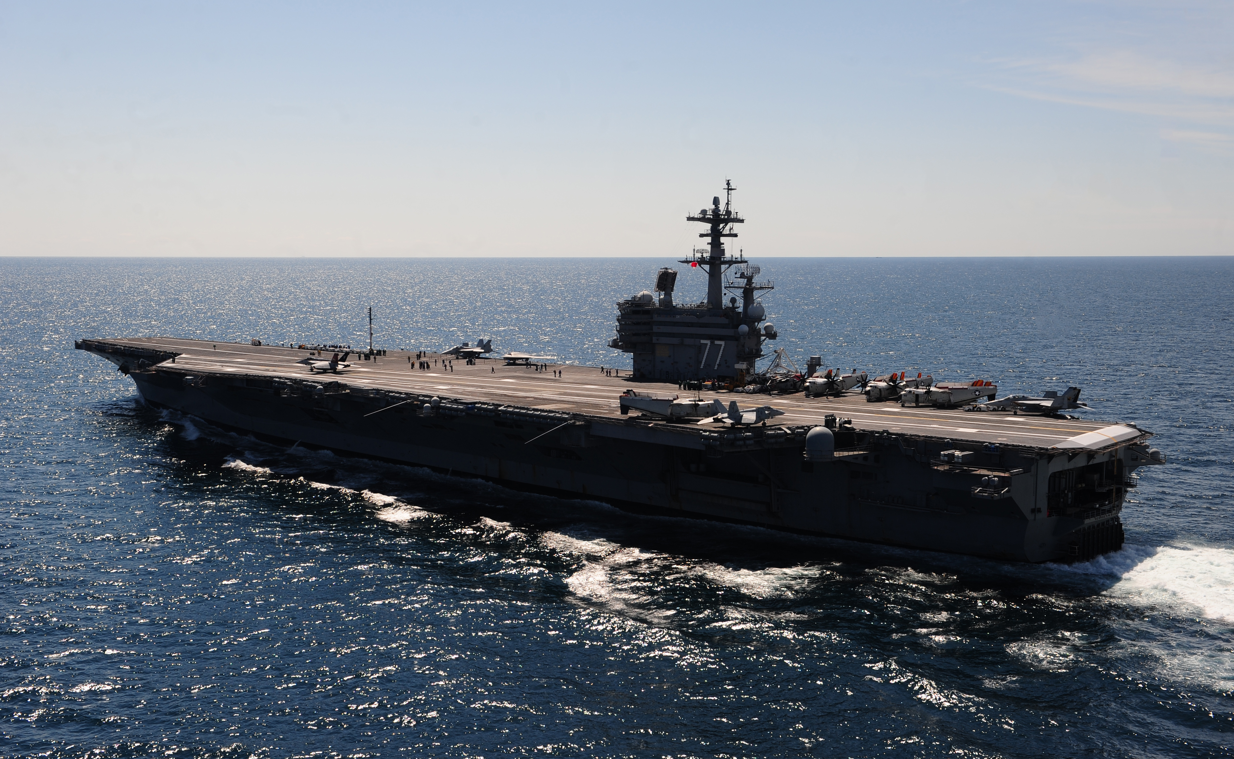 A U.S. Navy X-47B Unmanned Combat Air System demonstrator aircraft, center left, sits on the flight deck of the aircraft carrier USS George H.W. Bush (CVN 77) in the Atlantic Ocean May 14, 2013, before a scheduled launch. The George H.W. Bush was the first aircraft carrier to successfully catapult-launch an unmanned aircraft from its flight deck.